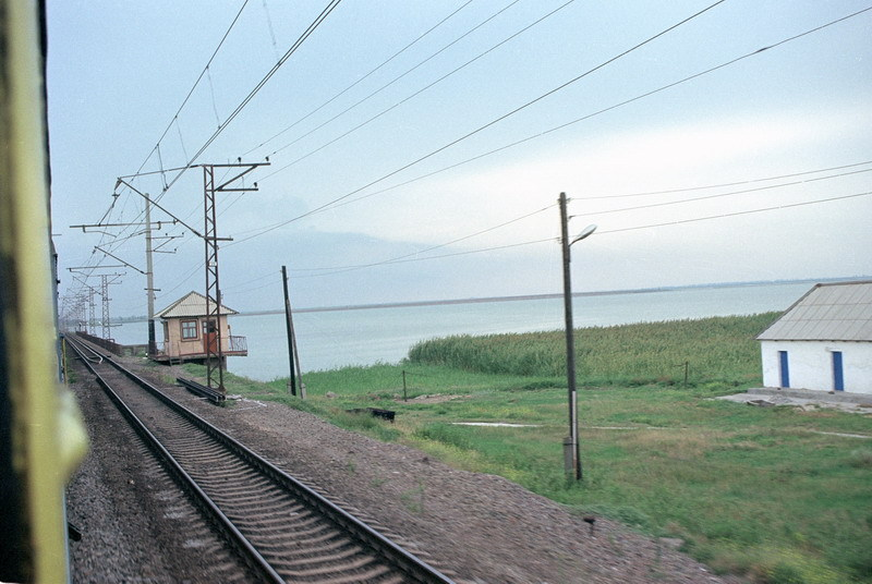 Railway bridge near Syvash, Kherson Oblast, Ukraine